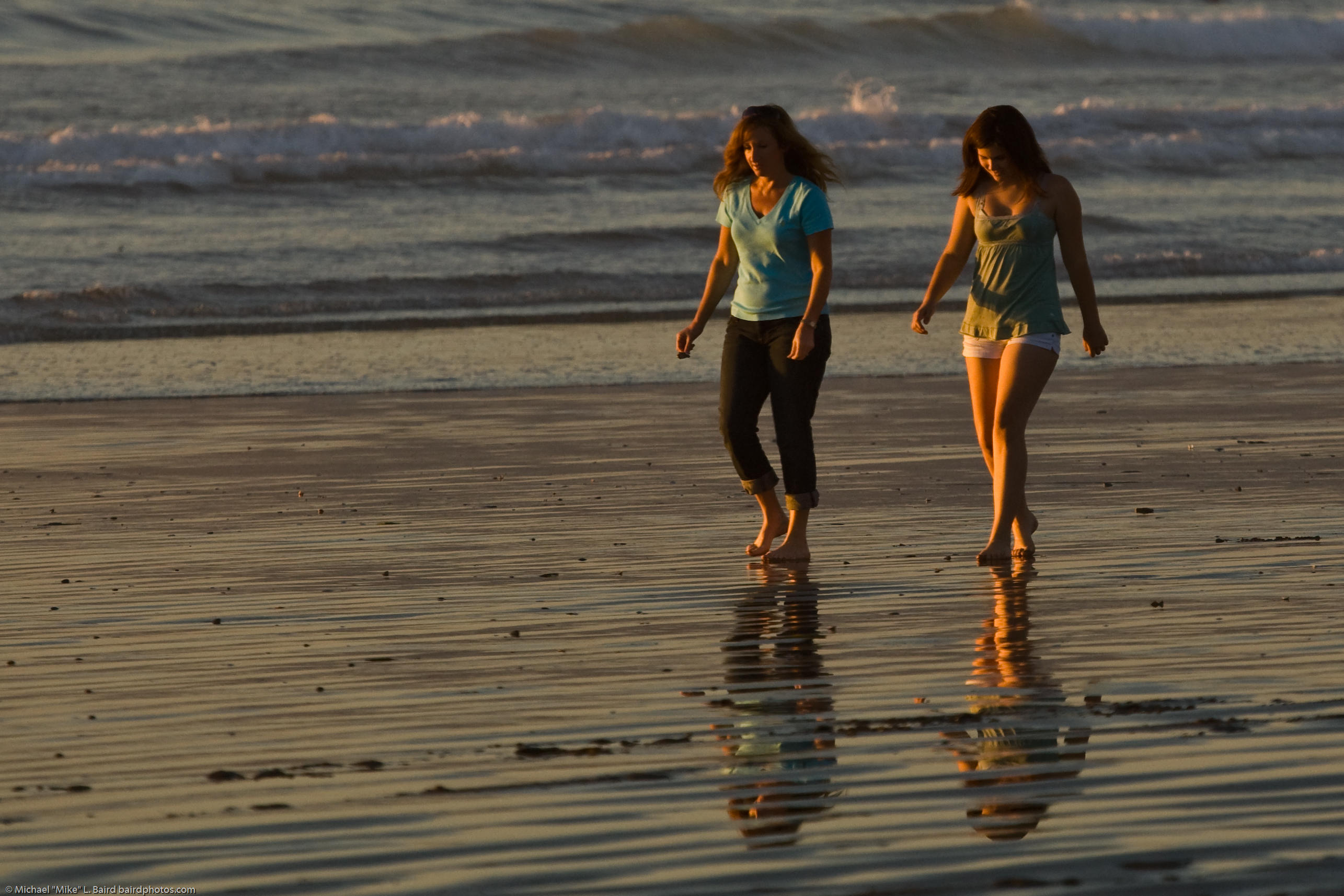 A Mother Daughter team (presumably) walk barefoot together having an intimate discussion on the hard wet sand of a low tide on Morro Strand State Beach during the golden light of sunset on an exceptionally warm and calm November day on the Central California Coast 16 Nov. 2008. Michael "Mike" L. Baird, Canon 1D Mark III EF 100-400mm f/4.5-5.6L IS USM handheld.